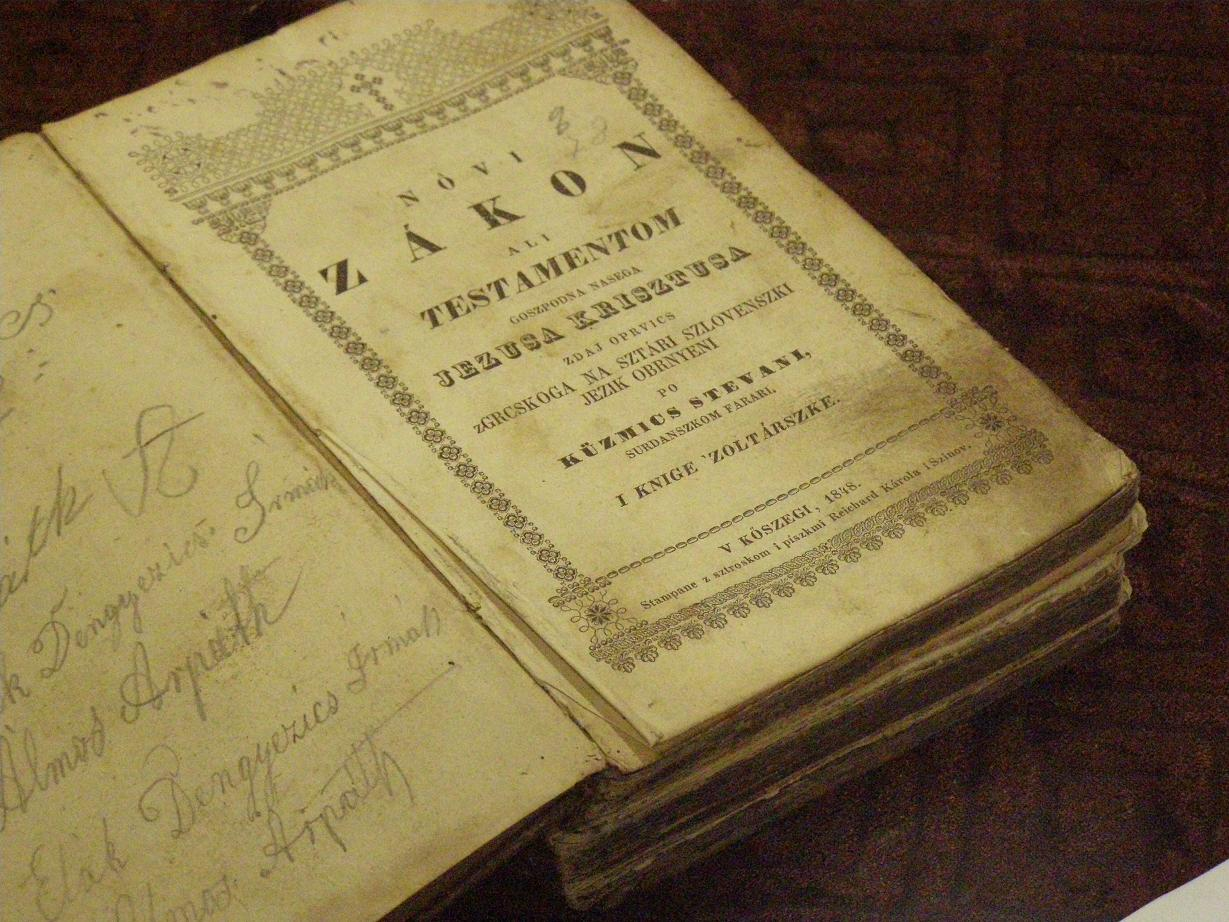 The Nouvi Zákon in 1848, rework Sándor Terplán